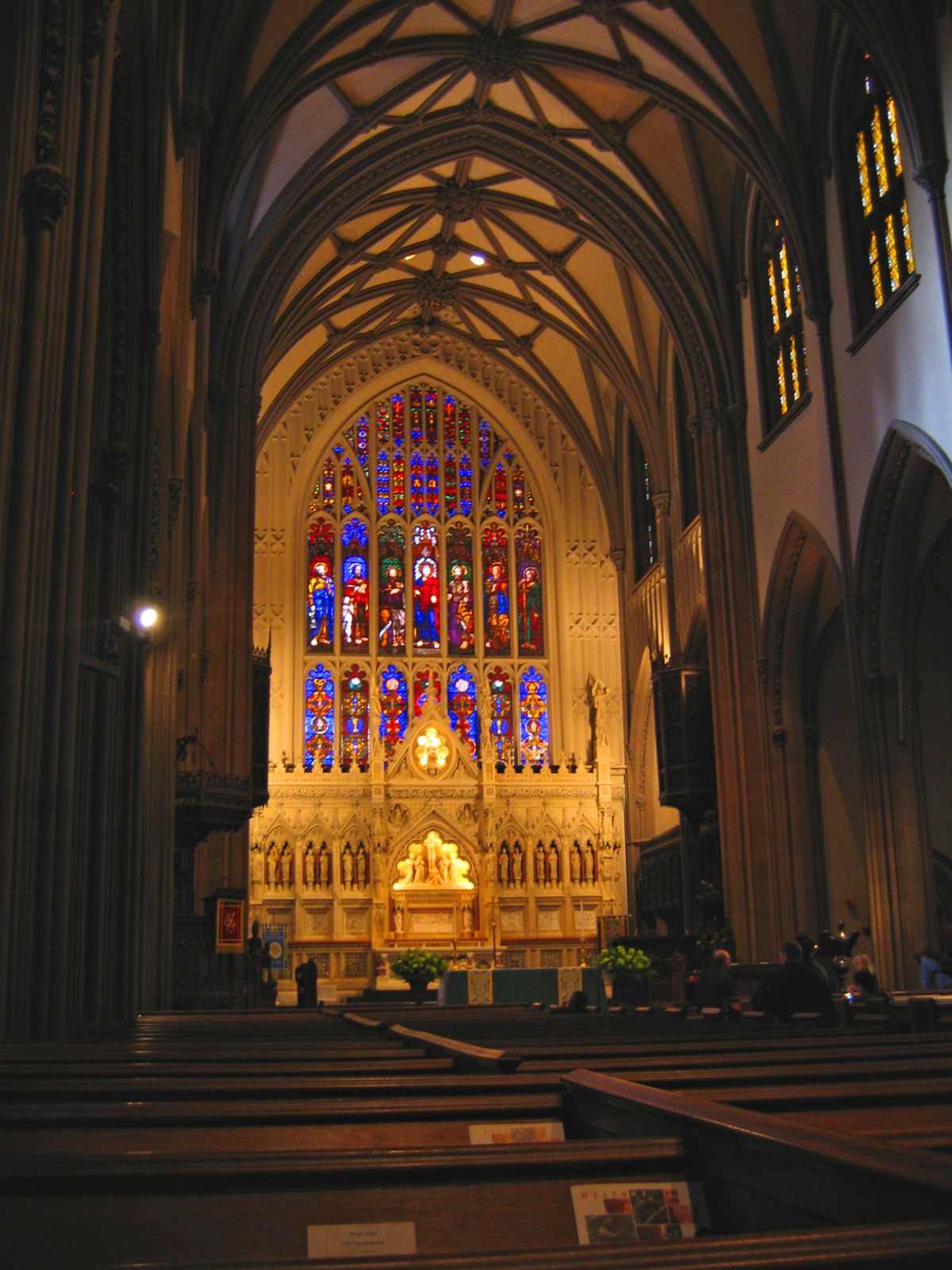 Interior of Trinity Church in NYC